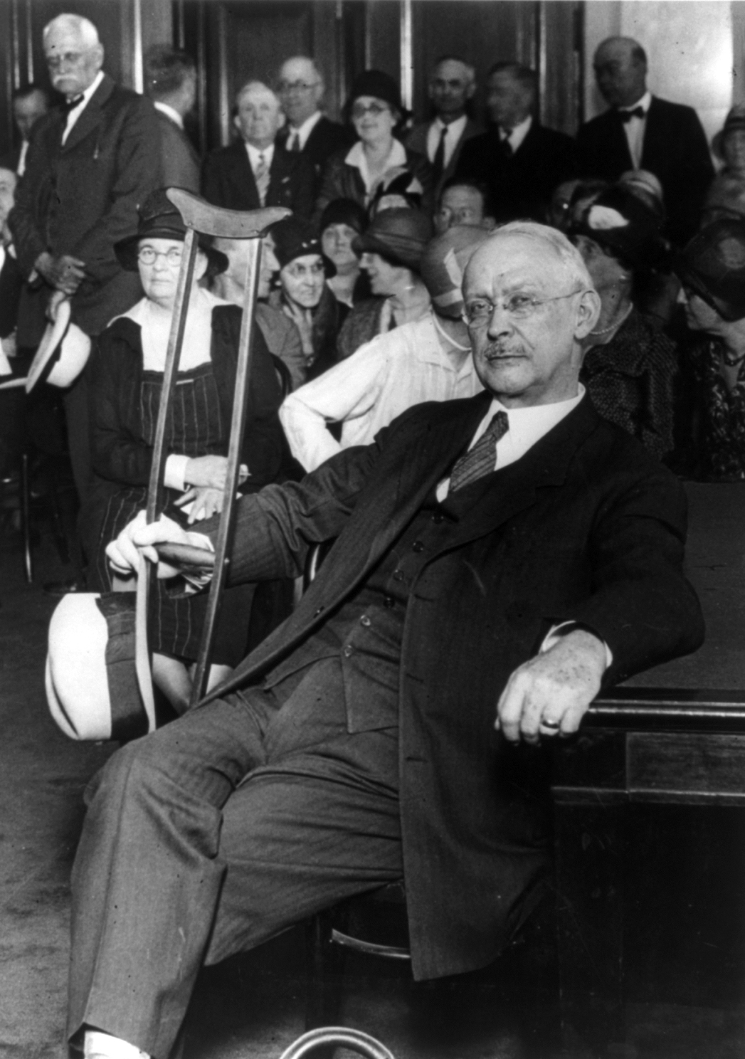 Bishop Cannon defies lobby probers on political activities. Bishop James Cannon, Jr., on the witness stand before the Caraway Lobby Committee of the Senate at the Capitol in Washington, where he is reported to have refused to answer questions regarding his political activites in the 1928 campaign.